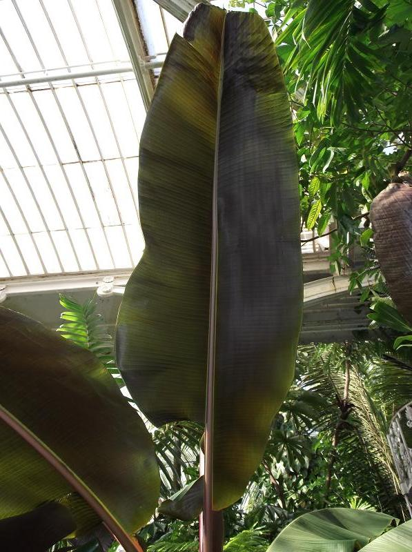 Japanese Banana, Japanese Fiber Banana or Hardy Banana (Musa basjoo) in Kew Gardens, England.